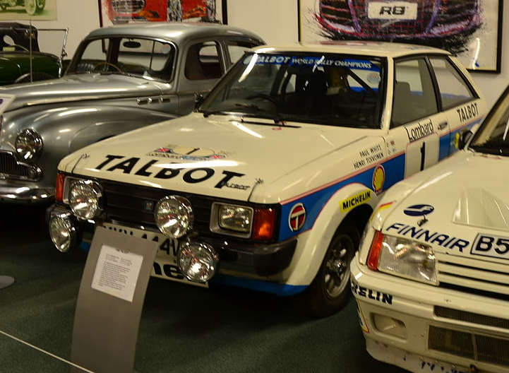 Cropped image of Talbot Sunbeam-Lotus of Henri Toivonen